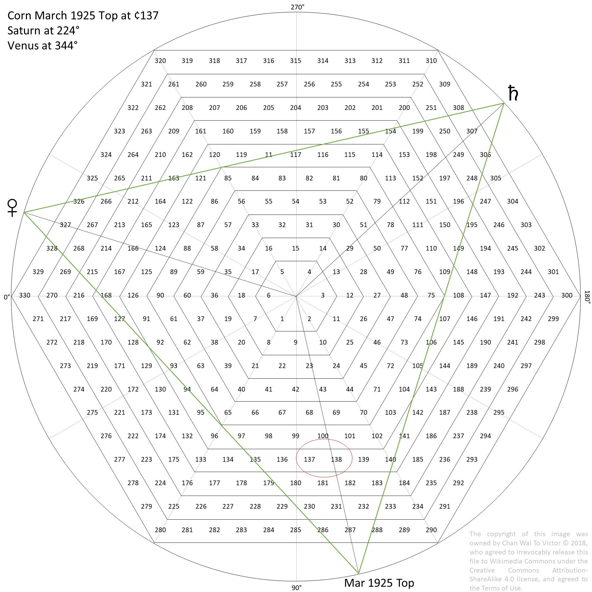 A diagram illustrating the Corn Top in March 1925 and its relation to the Hexagon Chart. This particular version of this chart is created by Victor Chan Wai-to, who agreed to irrevocably release this file to Wikimedia Commons under the Creative Commons Attribution-ShareAlike 4.0 license, and agreed to the Terms of Use.